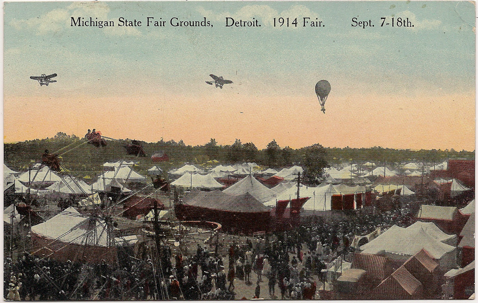 Michigan State Fair Grounds, Detroit -- card promoting the 1914 fair.